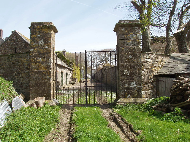 Gate of Tonacombe Tonacombe is "one of the best and most interesting Tudor mansions in the West of England" according to British Towns website , 1580 according to and mentioned in Pevsner - but walking through on the footpath what I saw was this imposing gateway and farm buildings.